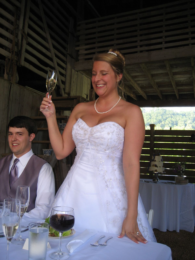 Bride toasting, North Carolina, USA.